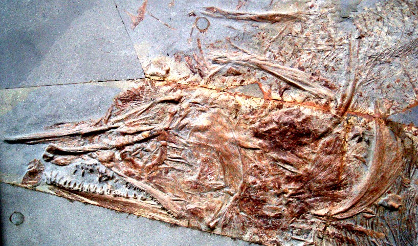 Skull of Pachycormus esocinus, a 1 m long fish from Jurassic